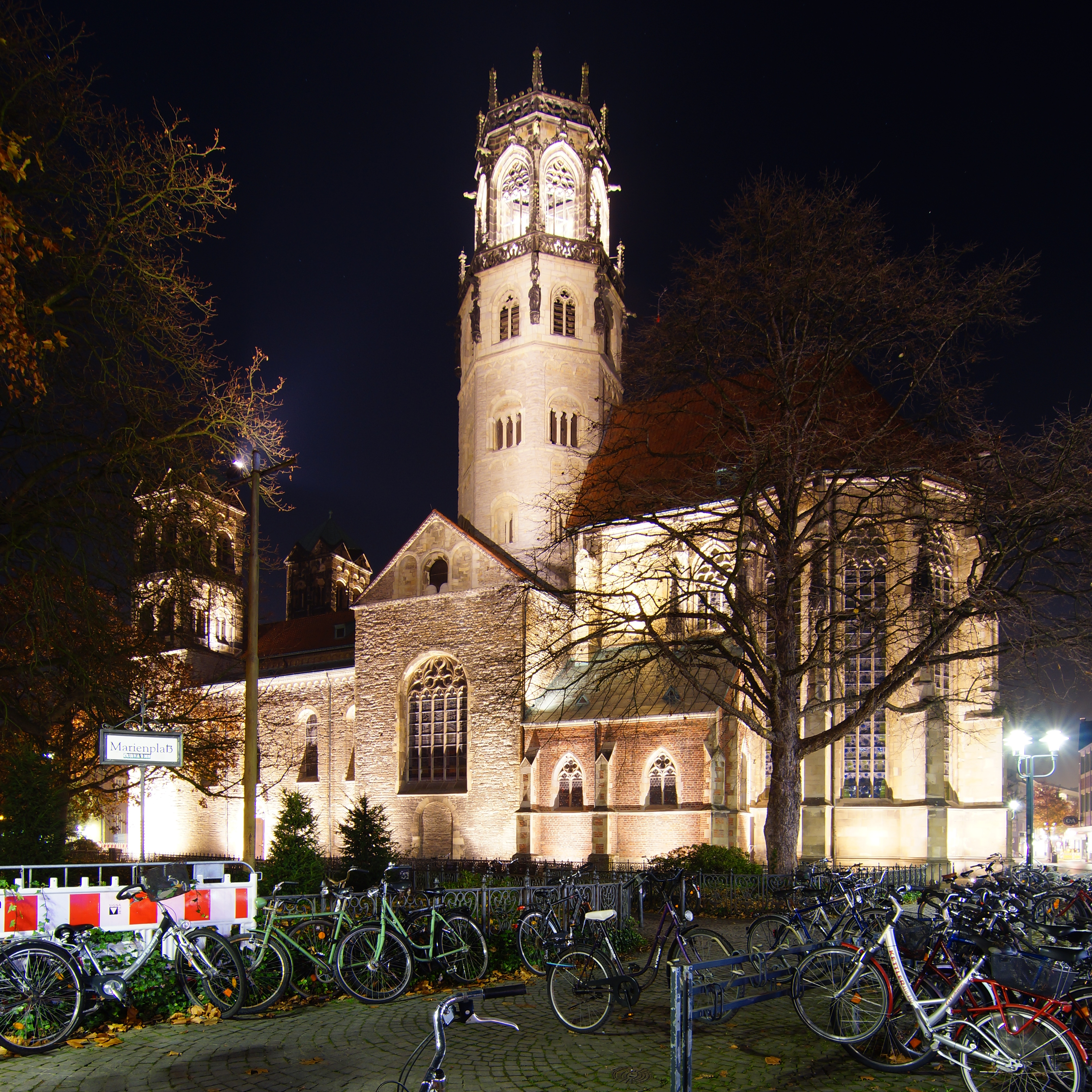 St. Ludgeri in Münster (Germany) at night.